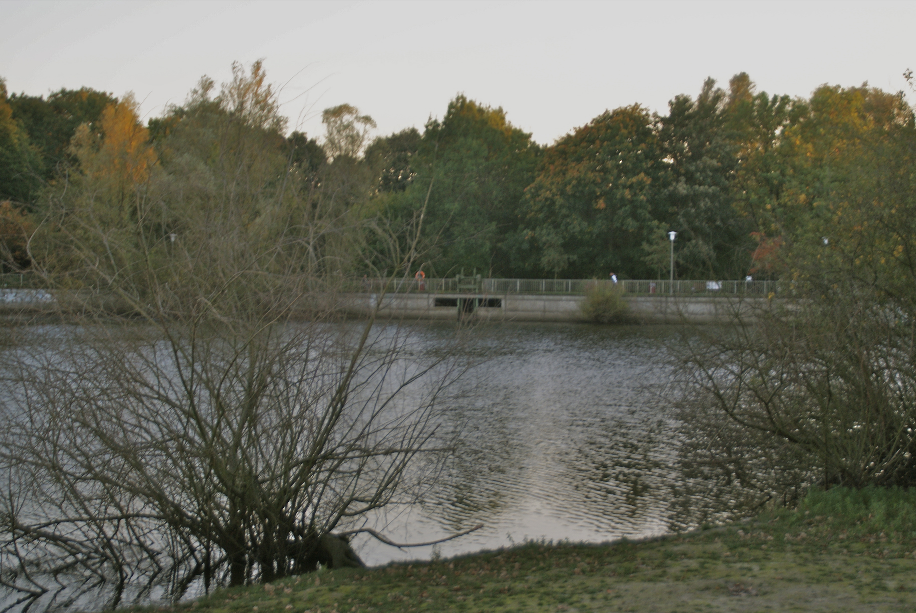 Hamburg (Germany): Seebek: storm water bassin